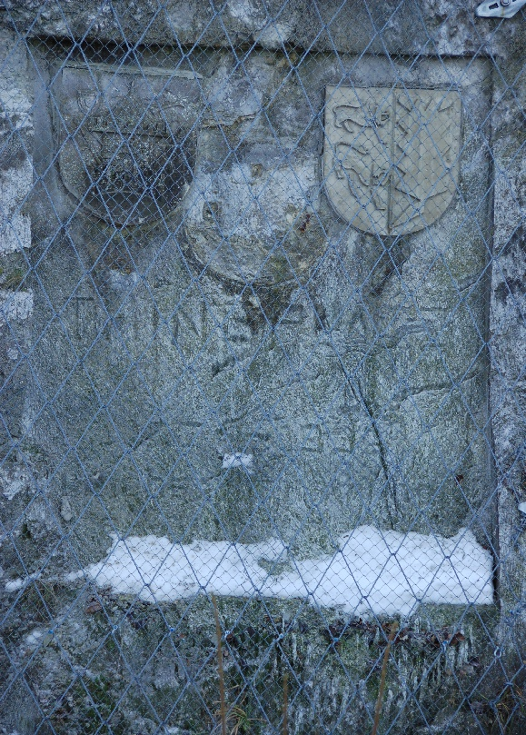 Entranc to the former Thingplatz at the Segeberger Kalkberg